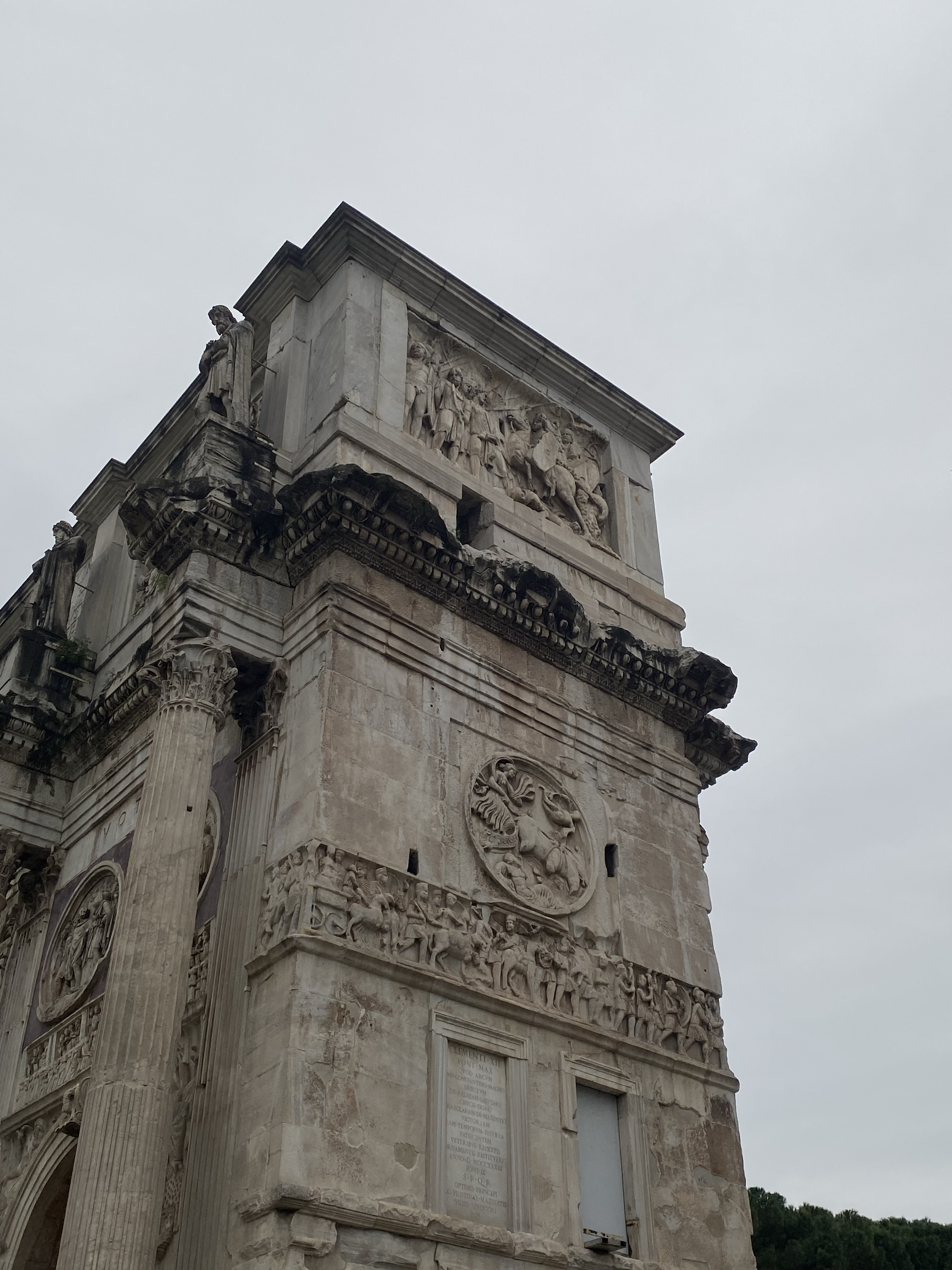 The Arch of Constantine in Rome, Italy. Taken December 2019. Low angle, from the right side. Taken on iPhone.